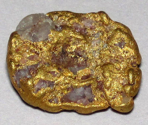 Gold-quartz placer nugget (1 cm across) from the Black Hills of South Dakota, USA. This is a modern fluvial pebble composed of native gold (Au) and quartz (SiO2). The gold is ultimately derived from auriferous Precambrian basement rocks in the area of Lead, South Dakota. The now-inactive Homestake Mine, America's largest gold mine, is located in Lead (pronounced "Leed"). Gold masses that accumulate in river or stream gravels, or get trapped in fractures in bedrock-floored rivers, are called placer deposits - such gold is called placer gold. Locality: Elk Creek, west of Rt. 385, southeast of the town of Lead, northern Black Hills, western South Dakota, USA.